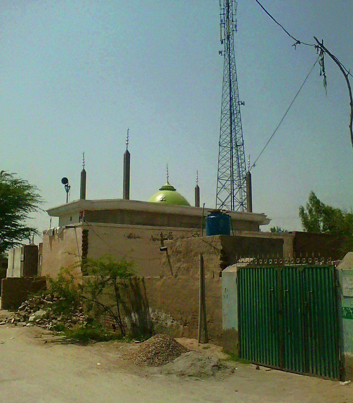 I also Uploaded this Photo on Botala Facebook Page & on website